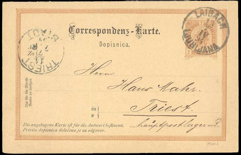 Postal card, 2 kreuzer, sent from Ljubliana to Triest in 1894